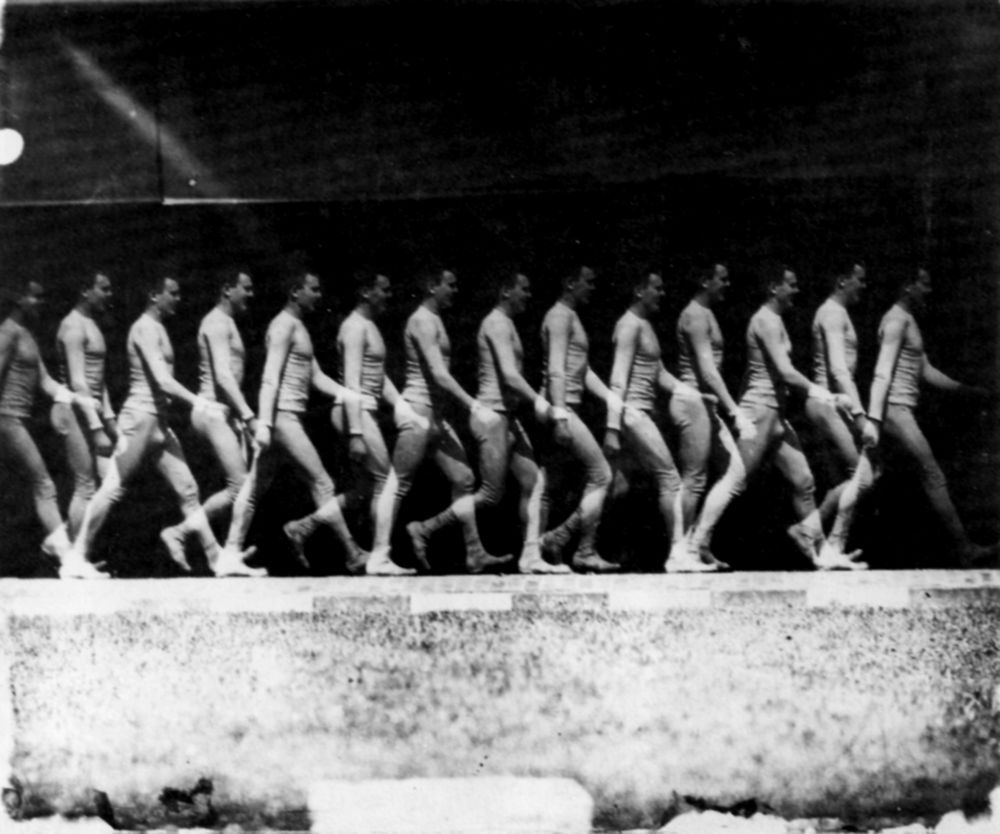 Walking